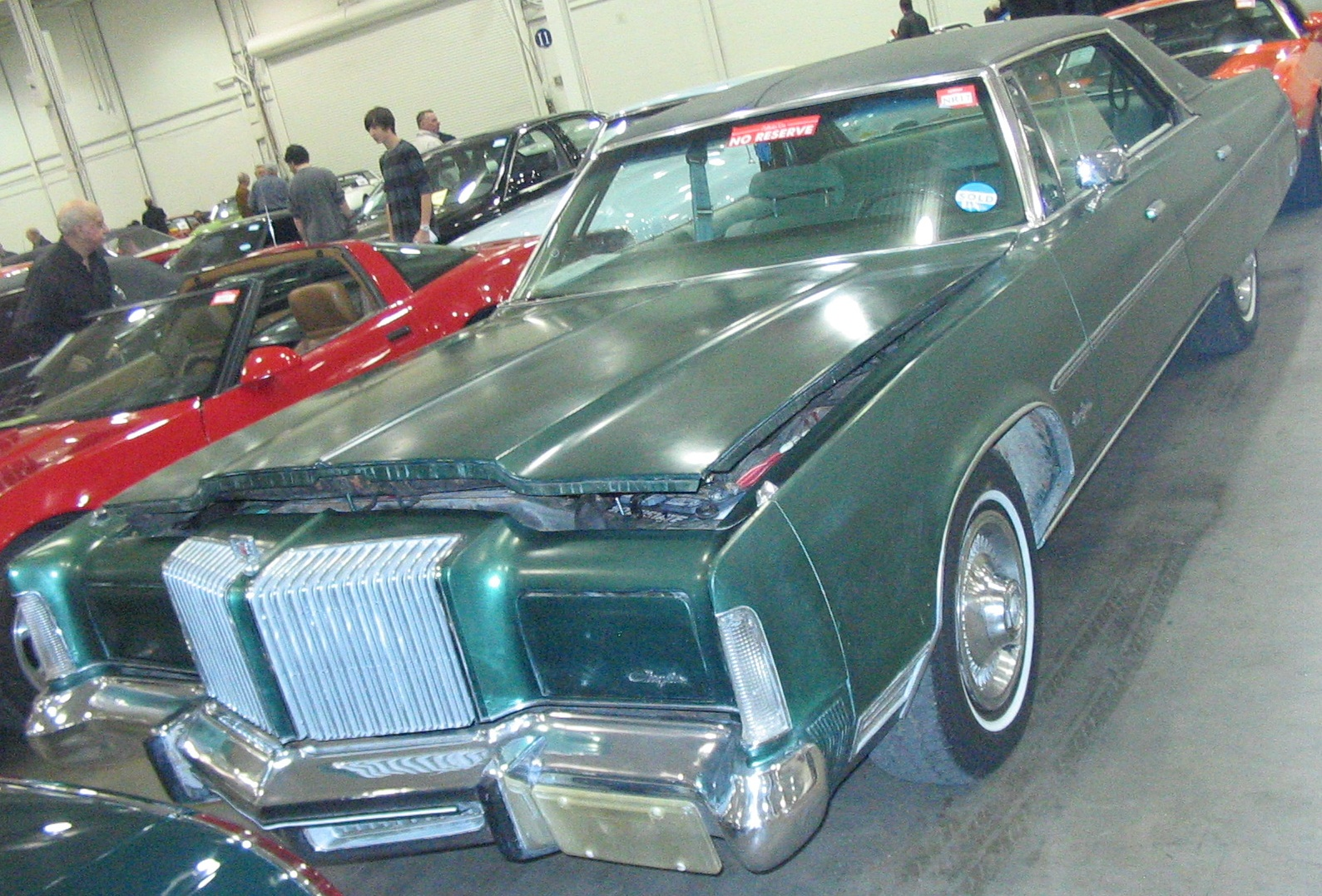 1977 Chrysler New Yorker photographed in Mississauga, Ontario, Canada at the Toronto Classic Car Auction of spring 2012.